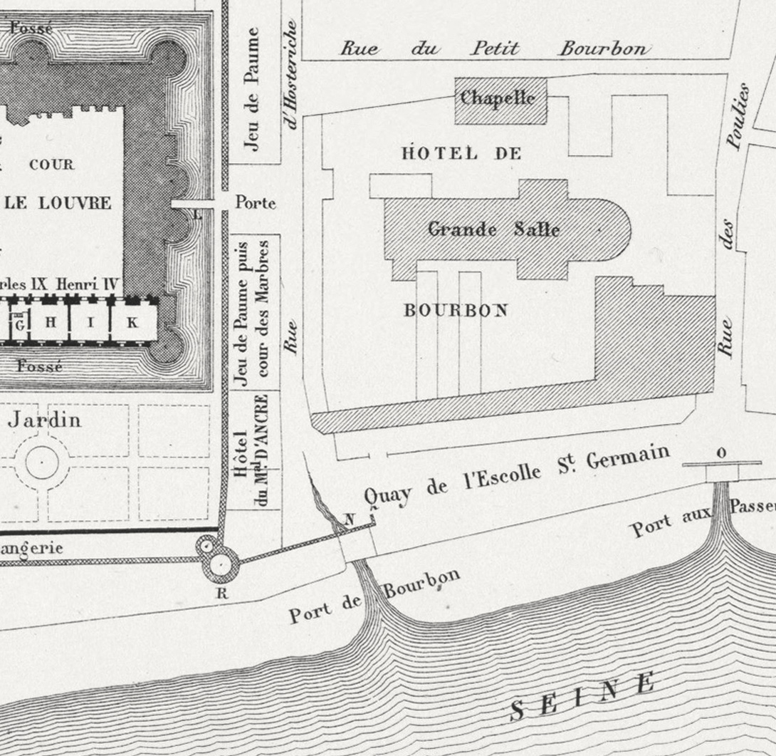 Reconstructed 1595 site plan of the Hôtel de Bourbon from Hofbauer's Paris à travers les âges